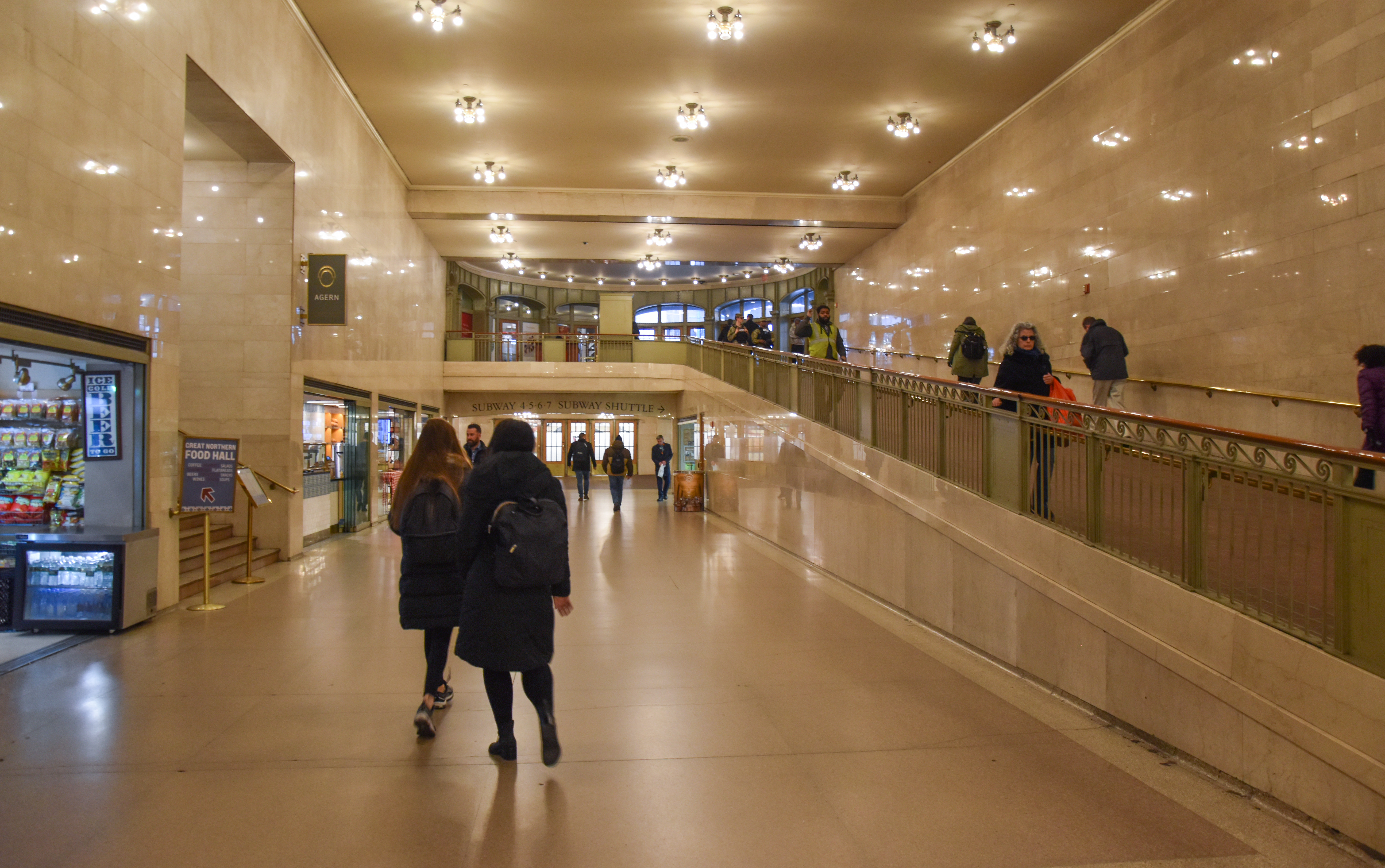 Shuttle Passage in New York City's Grand Central Terminal in 2019. Taken as part of a scheduled photoshoot with three other Wikipedians on January 7, 2019.